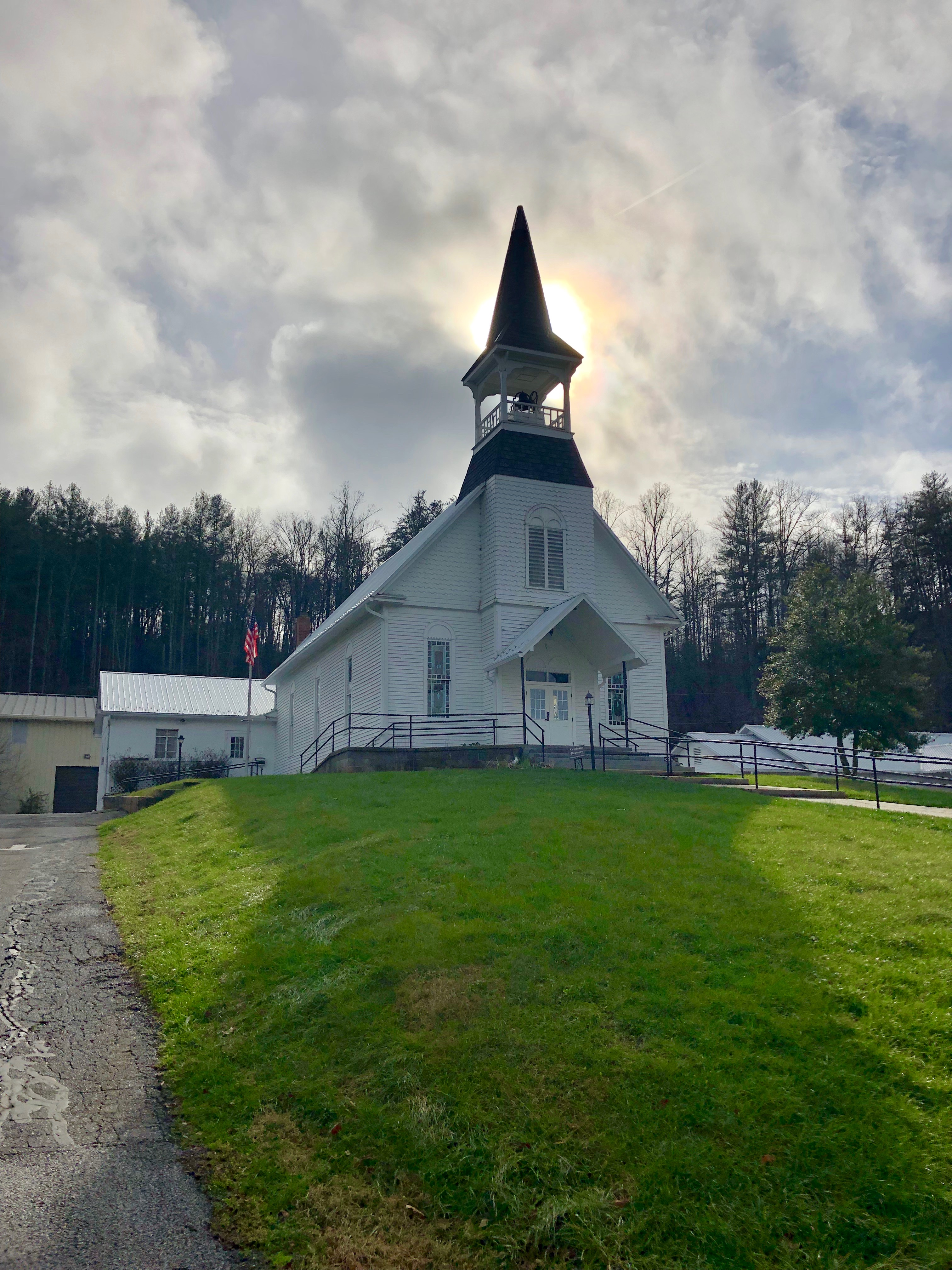 This is the Webster Baptist Church, located along North Carolina Highway 116 and the Tuckaseigee River in the town of Webster, North Carolina. Constructed in 1900, the Late Vernacular Victorian-style Church terminates the view coming across the bridge from the rest of town, and features an unaltered interior floor plan and Queen Anne-style details and windows that ornament and decorate the wood-frame structure. The church was built around the time the town began its decline, which has preserved many Victorian-era structures that once had similar examples in nearby towns, which have been lost to time and redevelopment. The church, which received additions and renovations in 1953 and 1998, is similar to many that once stood in other areas of the county, but have since been replaced with newer, larger, more modern structures. Today, the Webster Baptist Church continues to grace one of the most prominent sites in town, and was listed on the National Register of Historic Places in 1989.